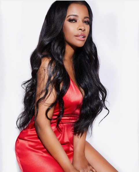 Photo of designer Jessica Rich